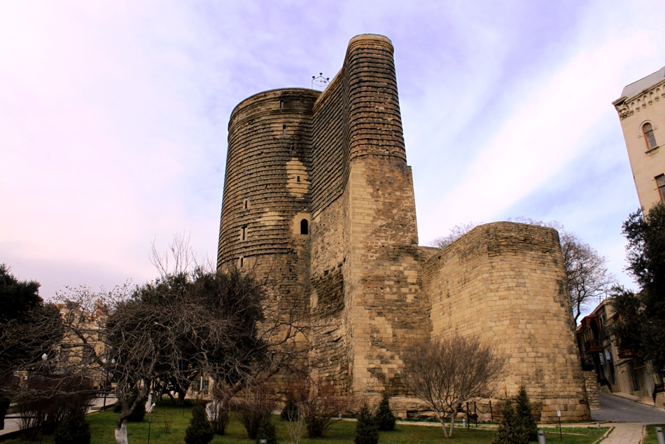 Baku old city